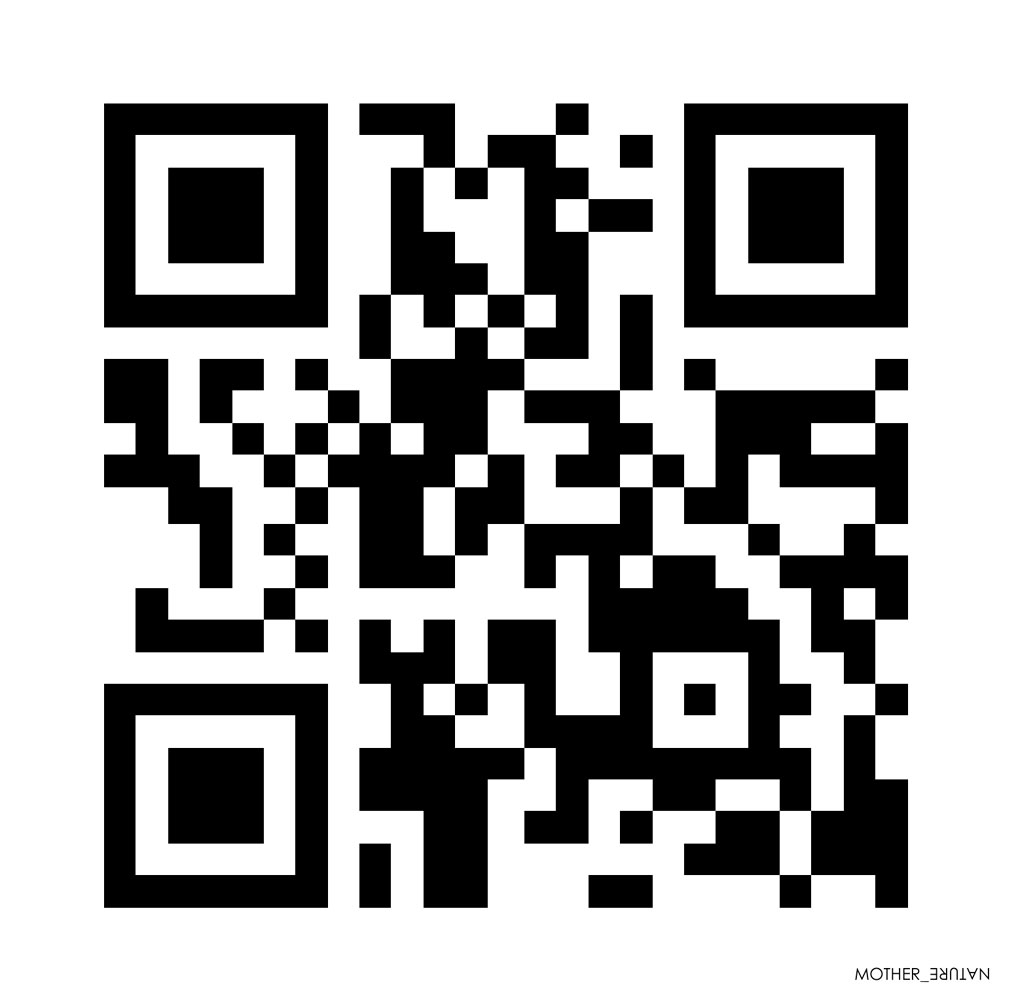 Mother Nature album cover for the physical copies of the album by MENEW